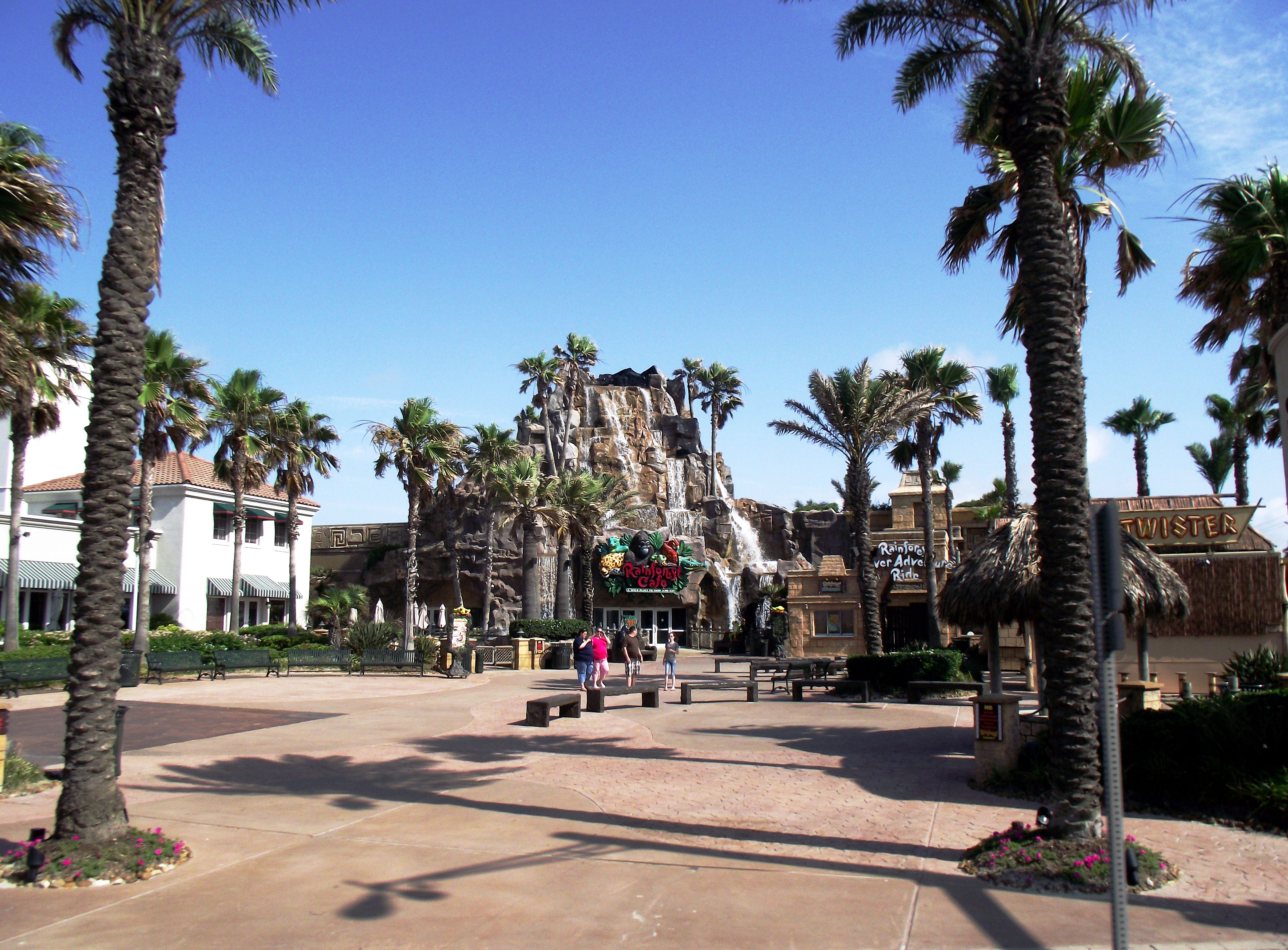 The Rainforest Cafe on Galveston Island, Texas.